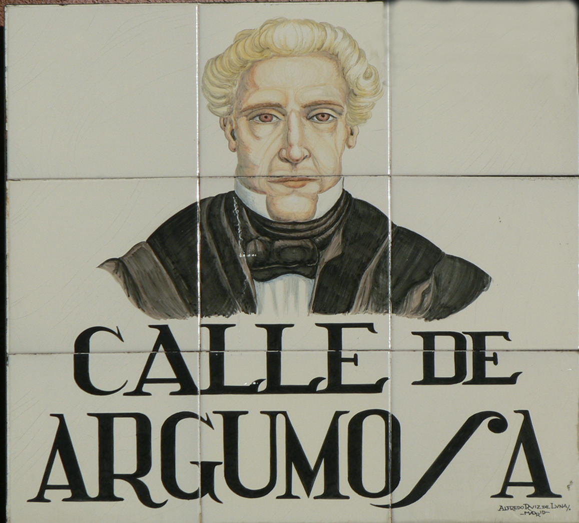 Sign of Calle de Argumosa (street, Centro district) in Madrid (Spain).